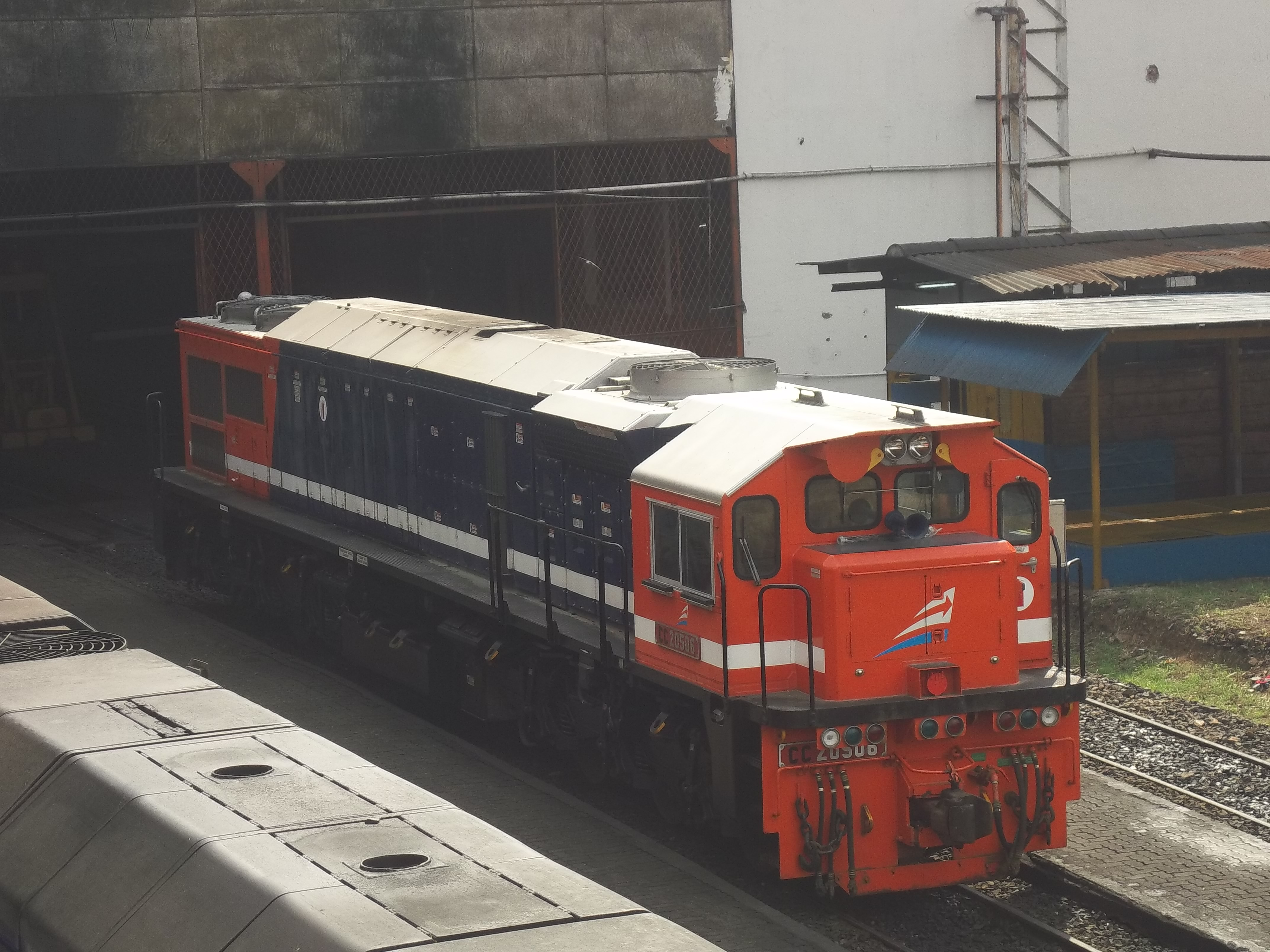 An EMD GT38ACe no. CC2051106 sits in Tanjungkarang locoshed in Lampung, Indonesia, June 2012.